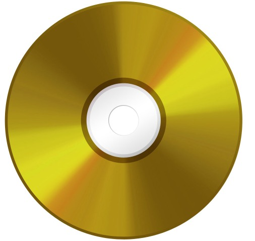 Holographic Versatile Disc.